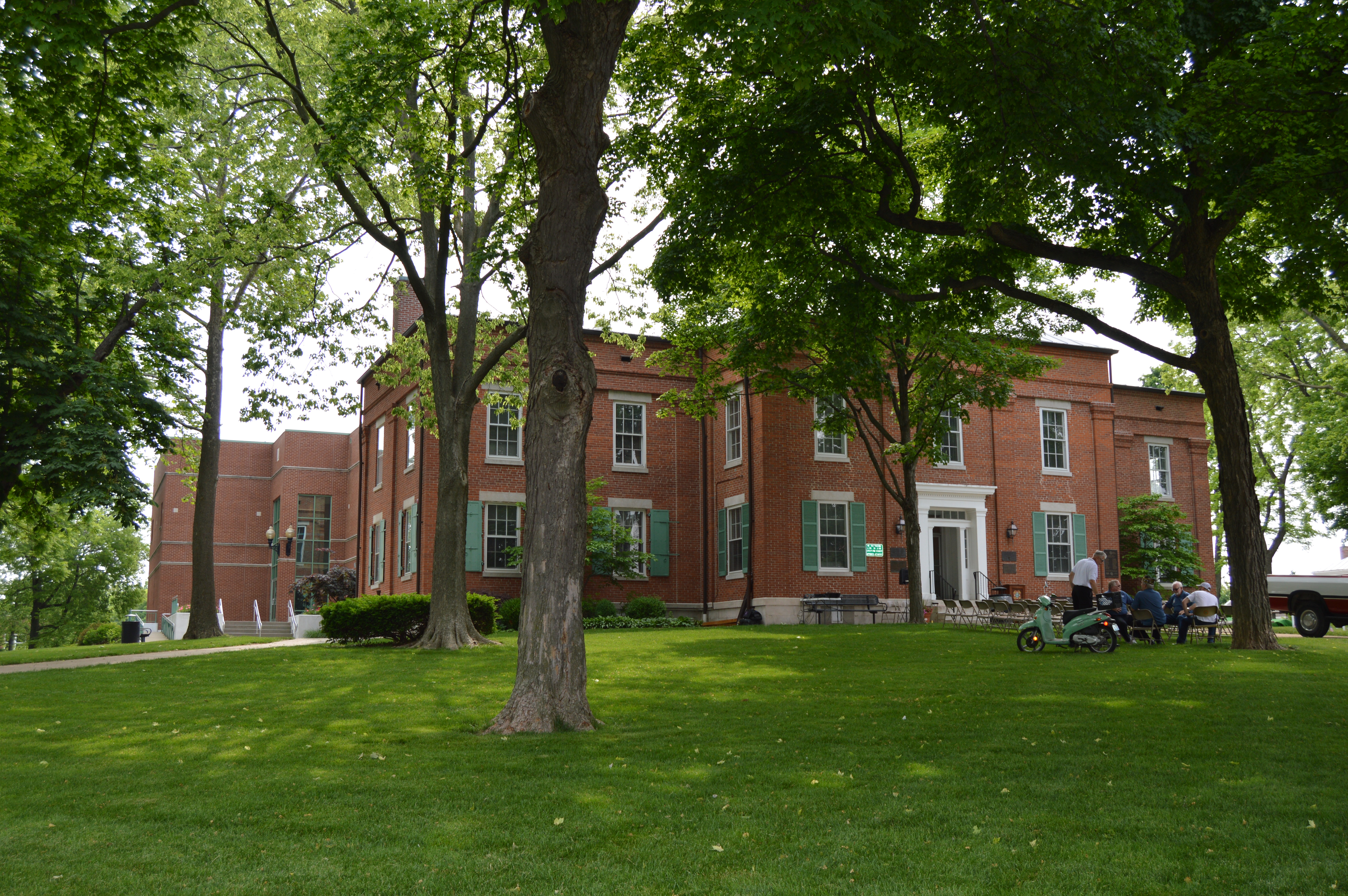 Western front of the Monroe County Courthouse, located on Courthouse Square in central Waterloo, Illinois, United States. Built in 1851 and repeatedly expanded, it is part of the Waterloo Historic District, a historic district that is listed on the National Register of Historic Places.